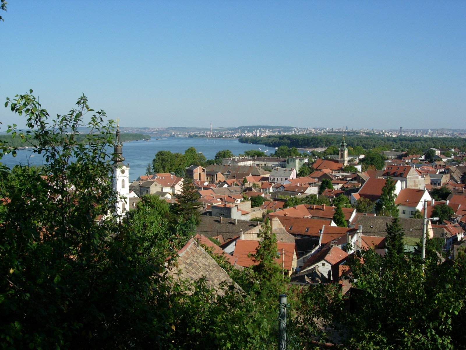 Panoramic view of Zemun